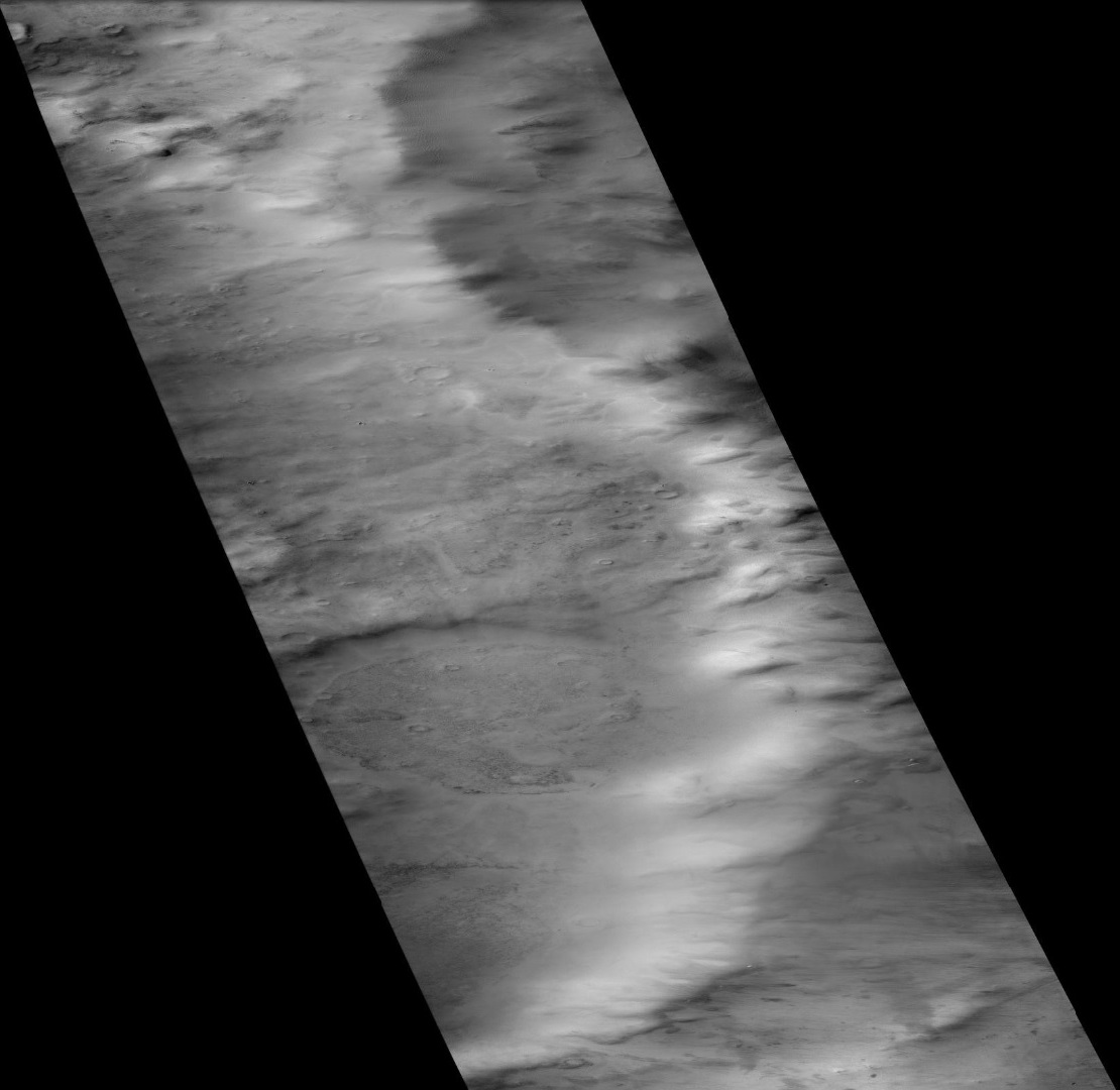 Stoney crater, as seen by ctx